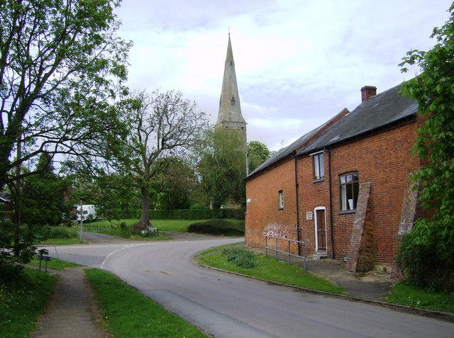 Braybrooke, Northamptonshire: Baptist chapel (right foreground) and Church of England parish church of All Saints (with steeple, in the background)